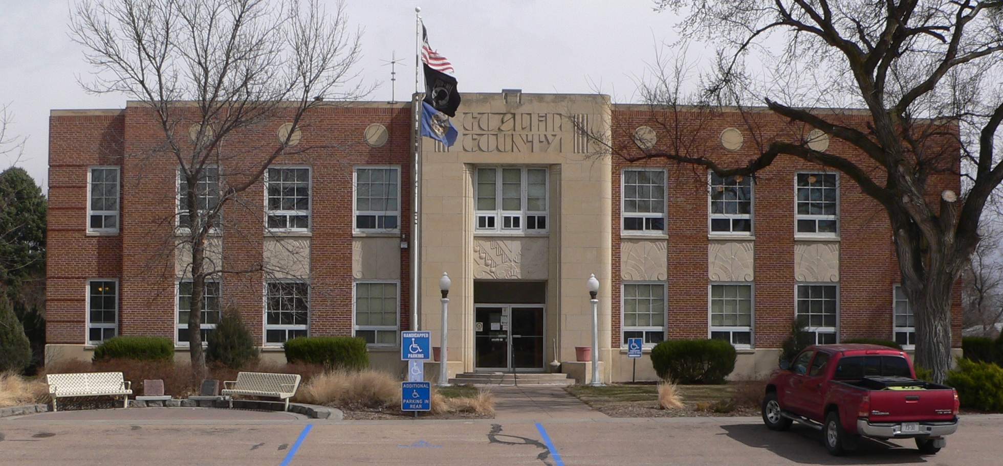 Gosper County Courthouse in Elwood, Nebraska; seen from the west. The 1939 Art Deco building is listed in the National Register of Historic Places.